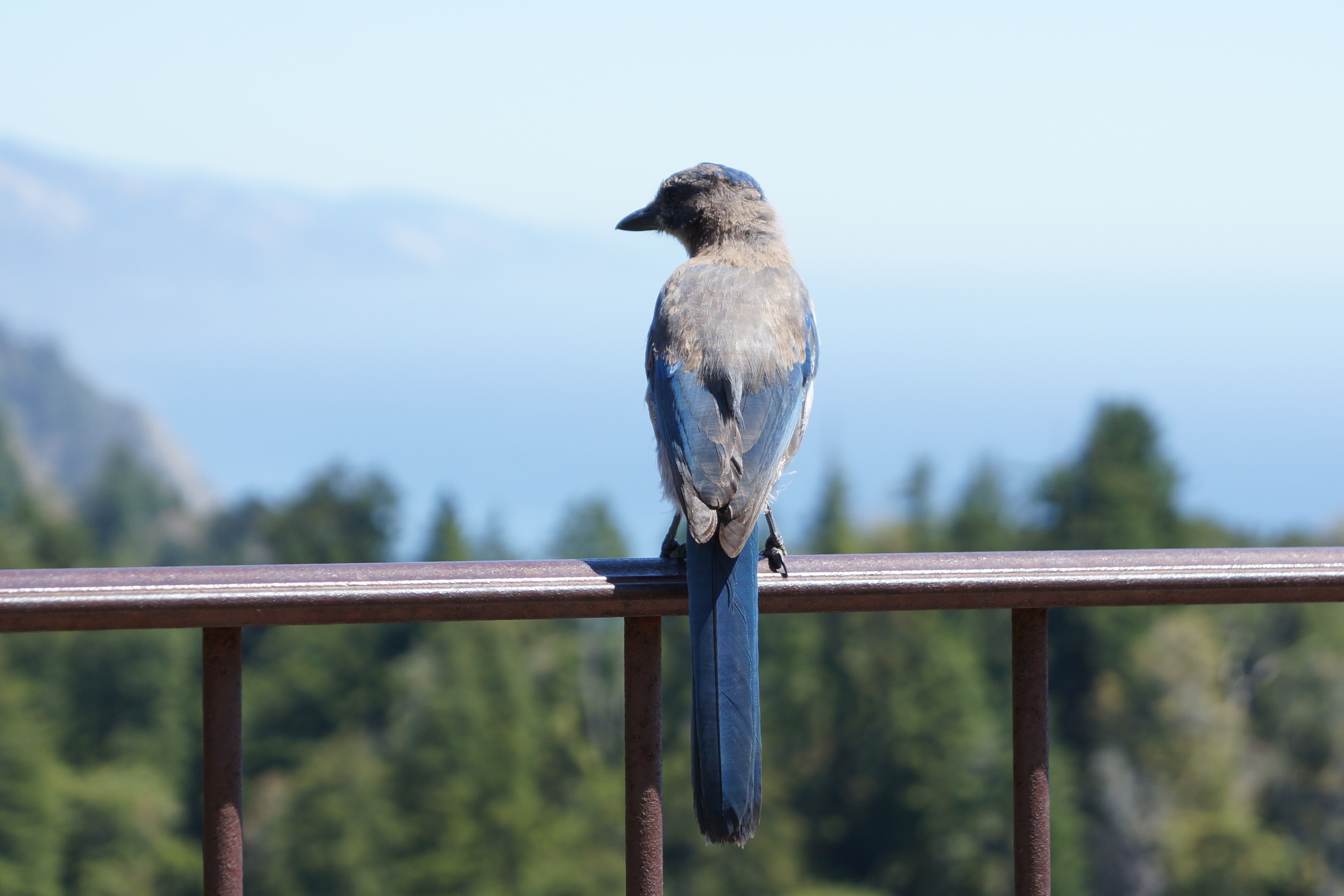 A California Scrub Jay near Nepenthe Restaurant, Big Sur, Central Coast, California, USA.